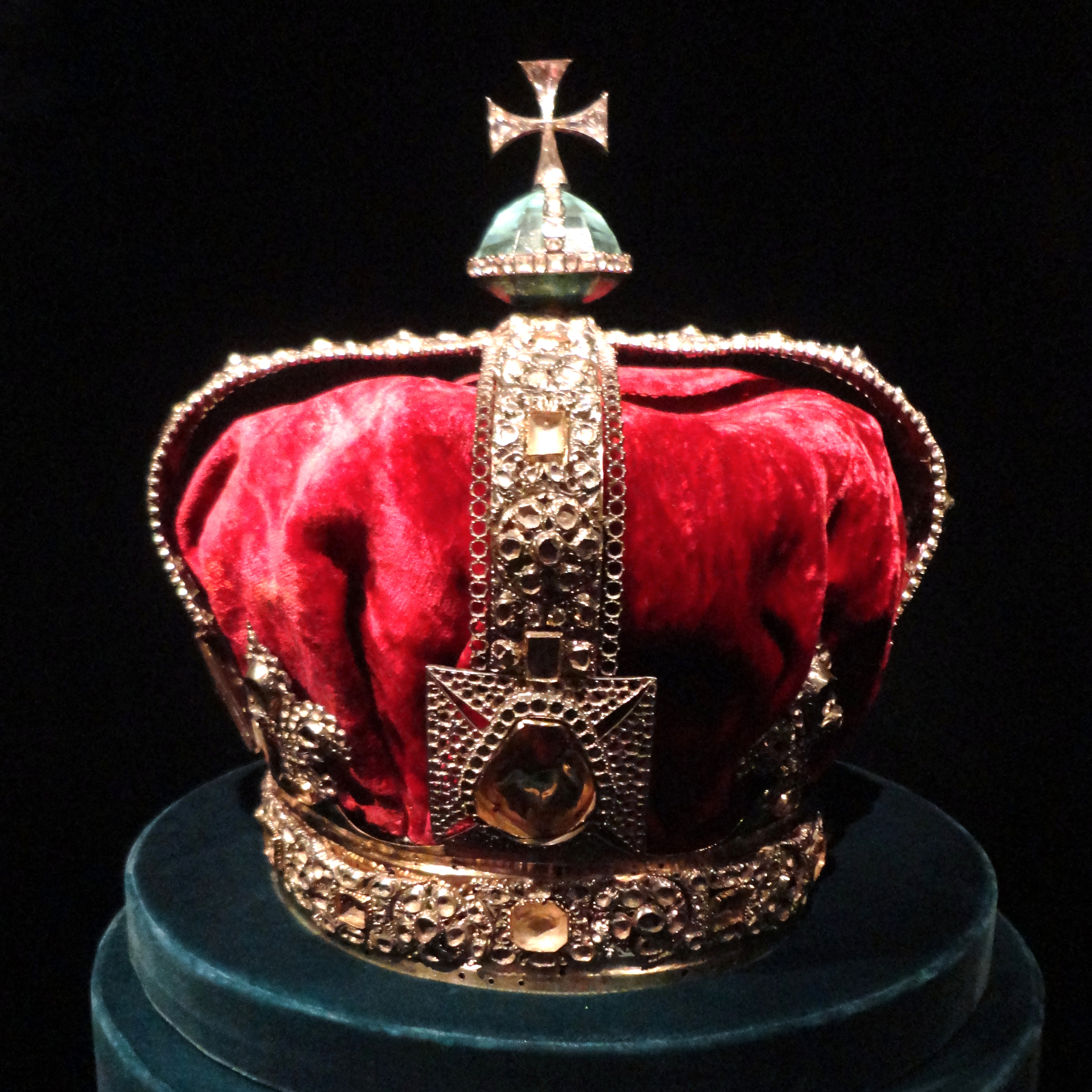 The empty frame of the State Crown of George I as displayed in the Martin Tower at the Tower of London.